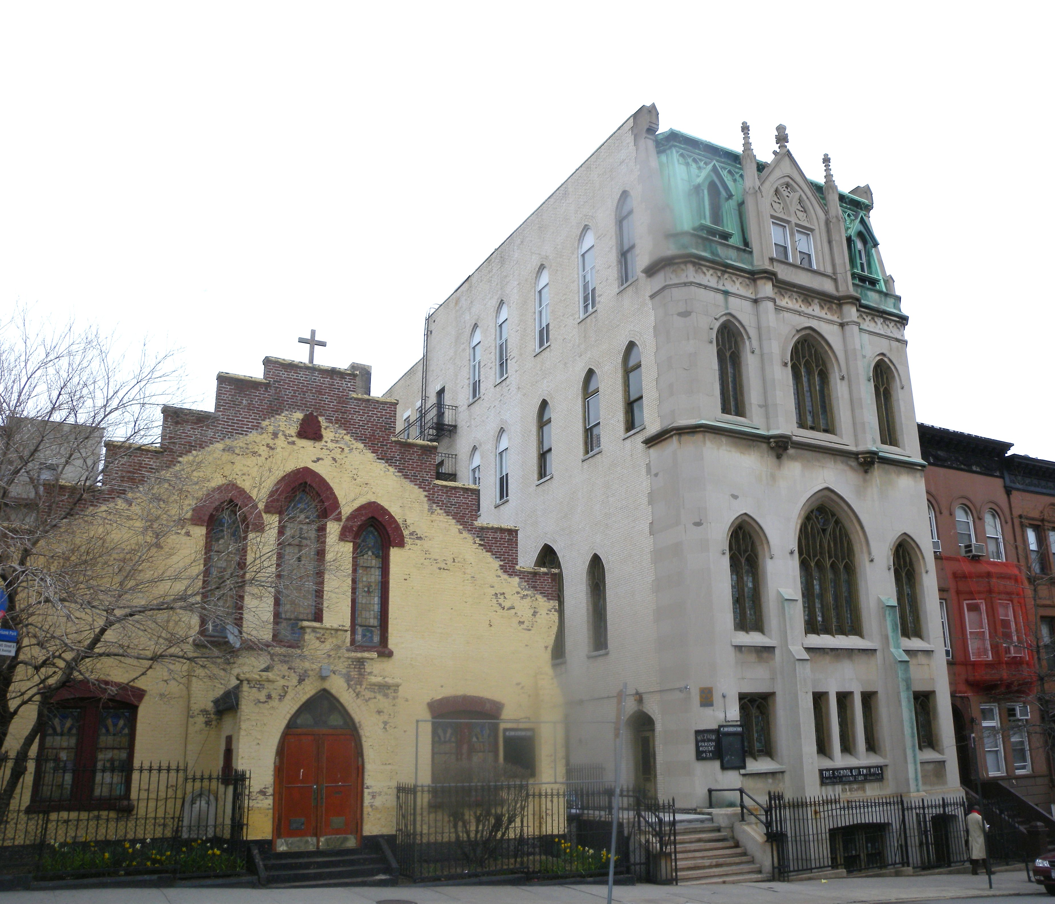 Looking northeast across 145th St at Mt Zion Lutheran Church on a cloudy midday. Originally Hamilton Grange Reformed Church, became St Matthew Evangelical Lutheran 1906-44.[1]